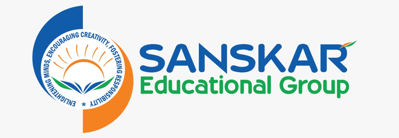 SEG-logo